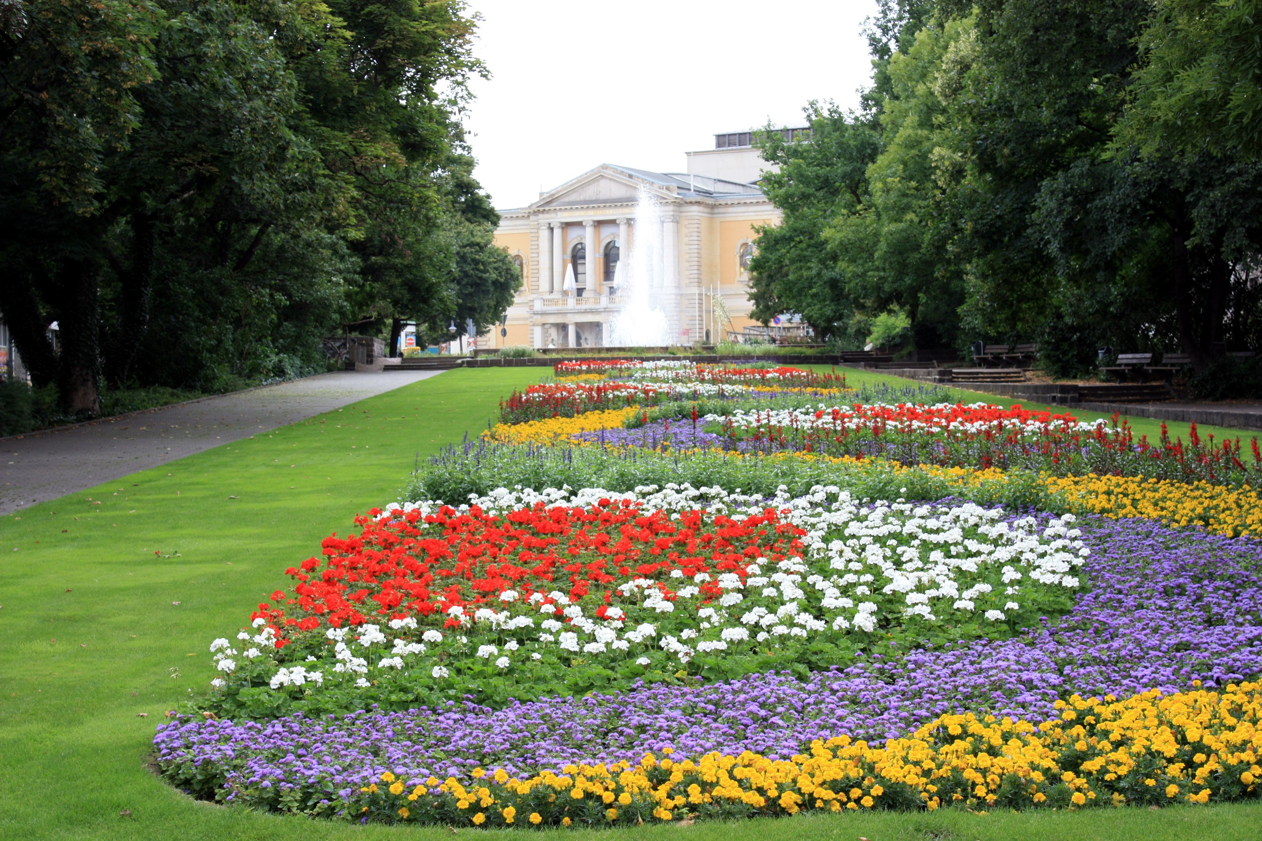 Halle (Saale), Joliot-Curie-Platz, view to the opera house